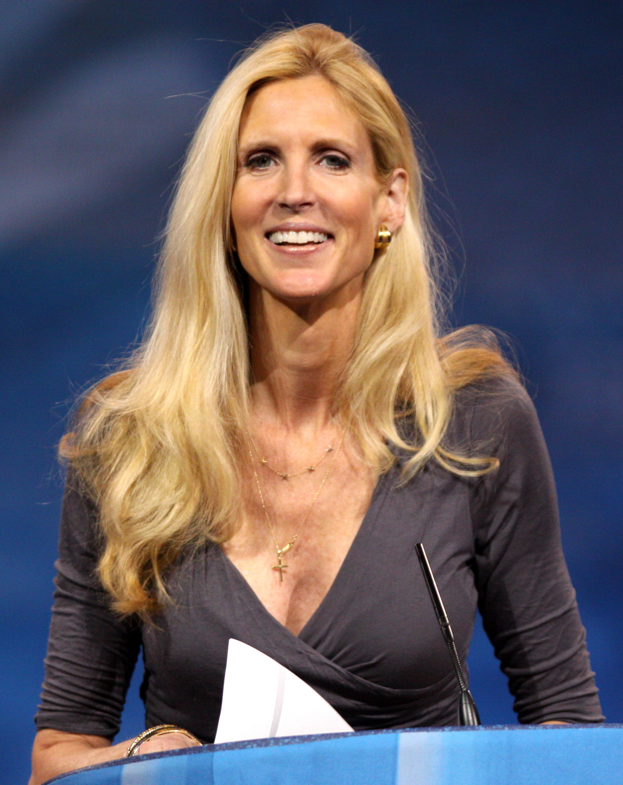 Ann Coulter speaking at the 2013 CPAC in Washington D.C. on March 16, 2013.